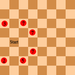 This is an graphical example of Warnsdorff's Algorithm being used to solve a knight's tour.